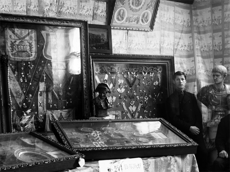 Masonic artifacts in Burylin museum, Ivanovo-Voznesenk